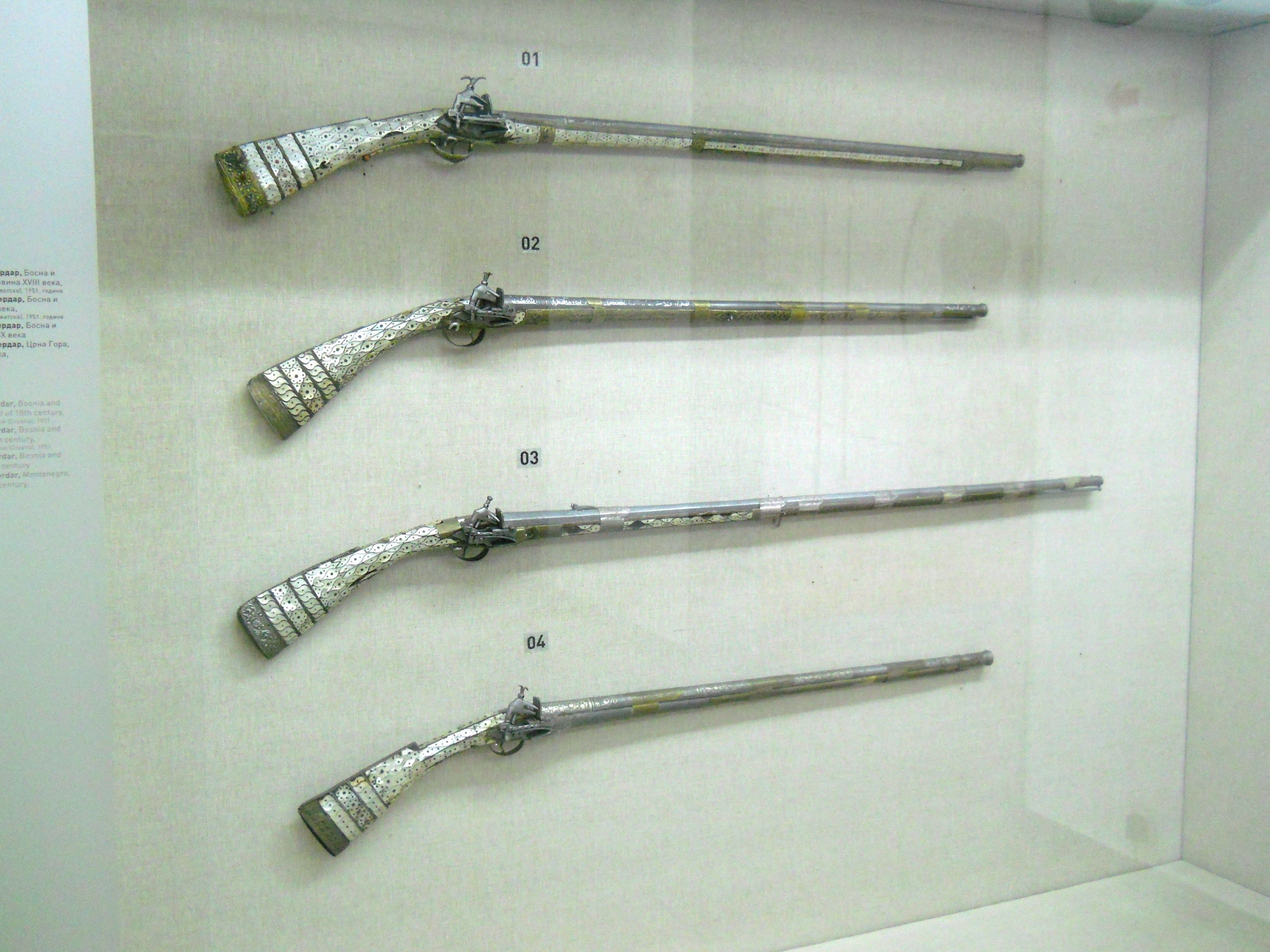 belgrade serbia the old museum (22)